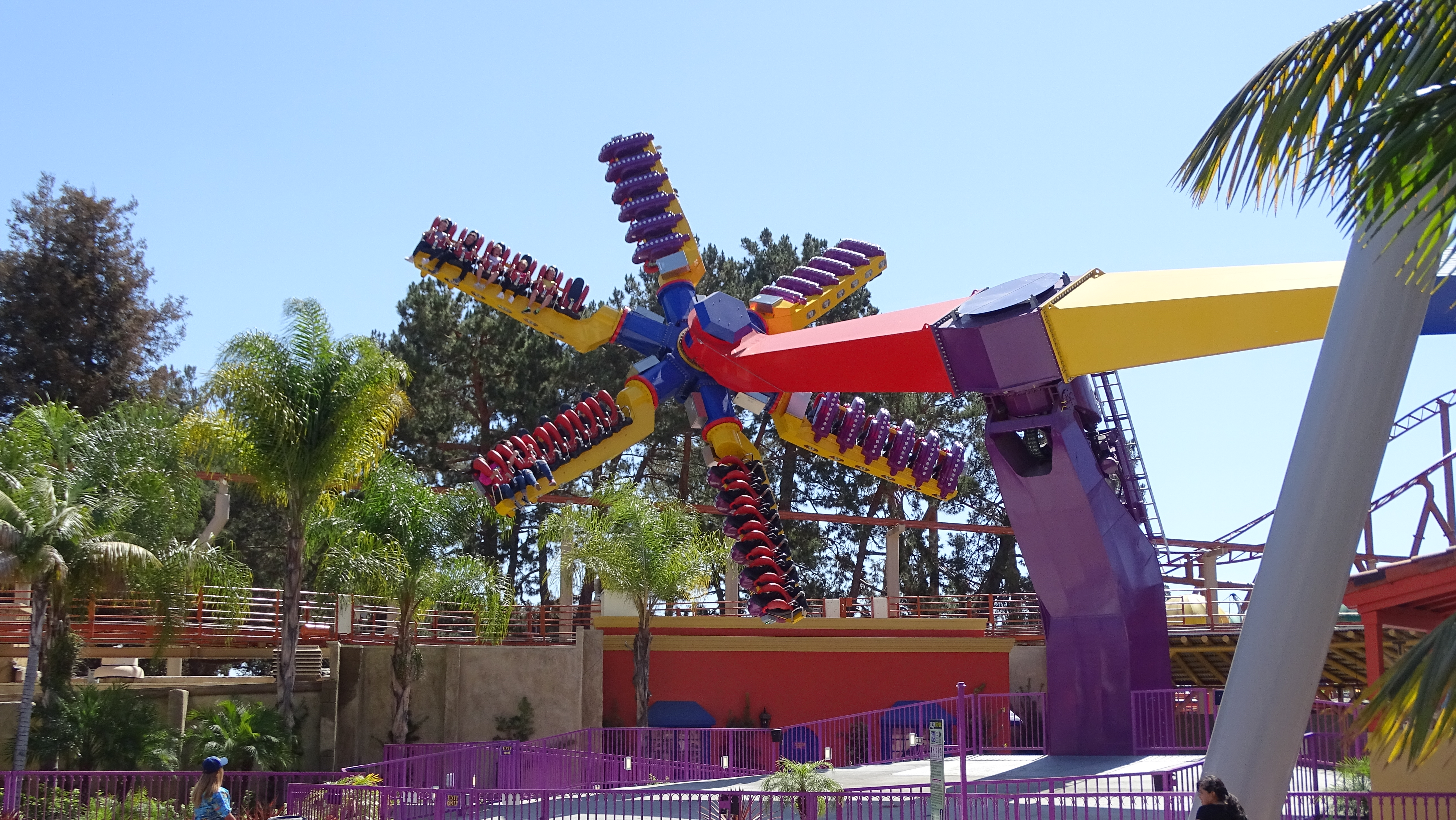 Sol Spin was added as a thrill ride in 2017.